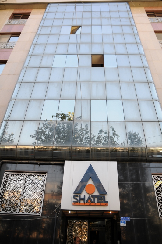 Shatel Company - Main Building